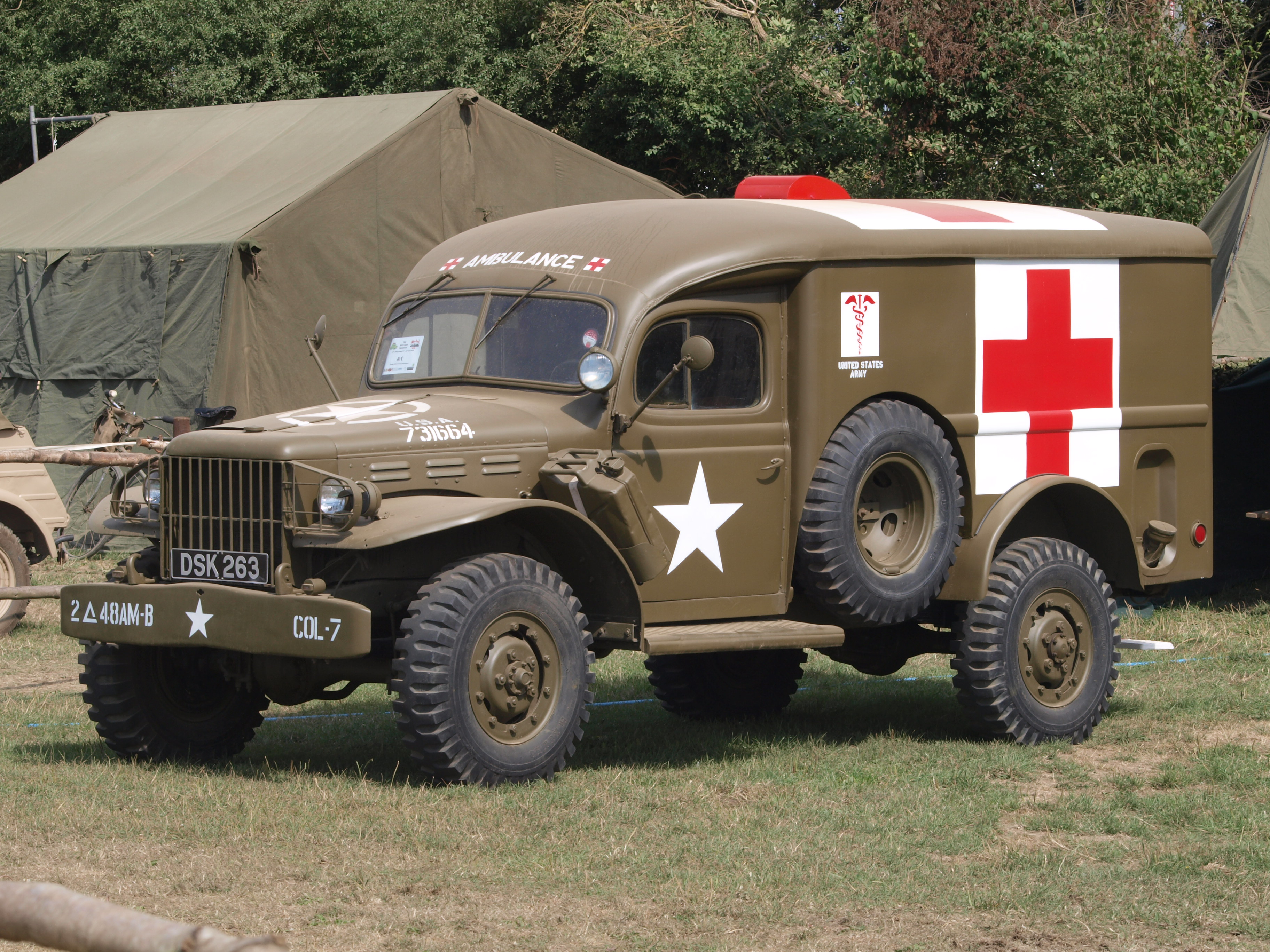 Dodge WC54 Field Ambulance (1943) (owner Glen Rummery). Hoodnumber USA 731664